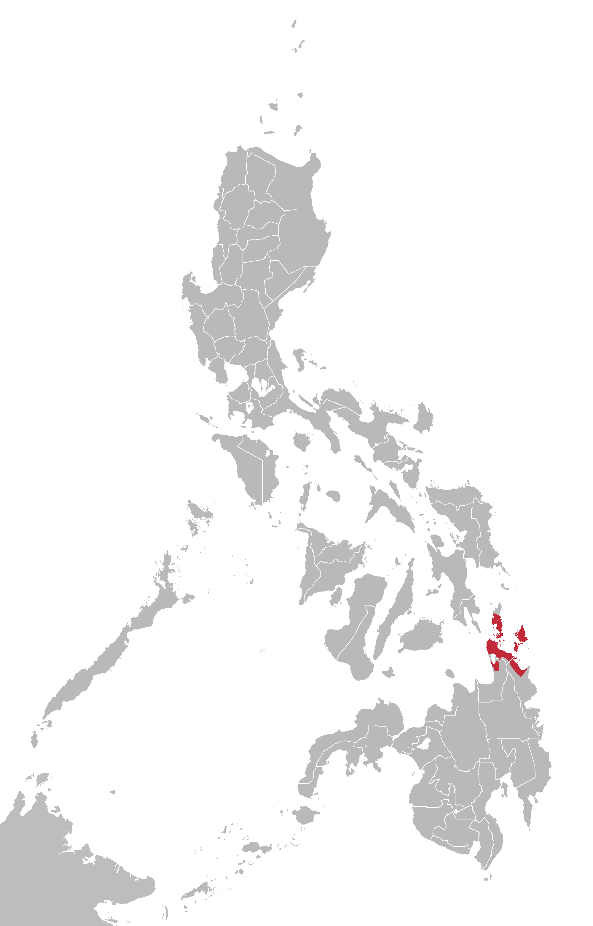 Surigaonon language map based on Ethnologue maps